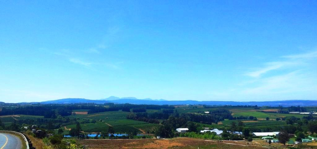 View over vast Elgin valley from Sir Lowrys Pass. South Africa